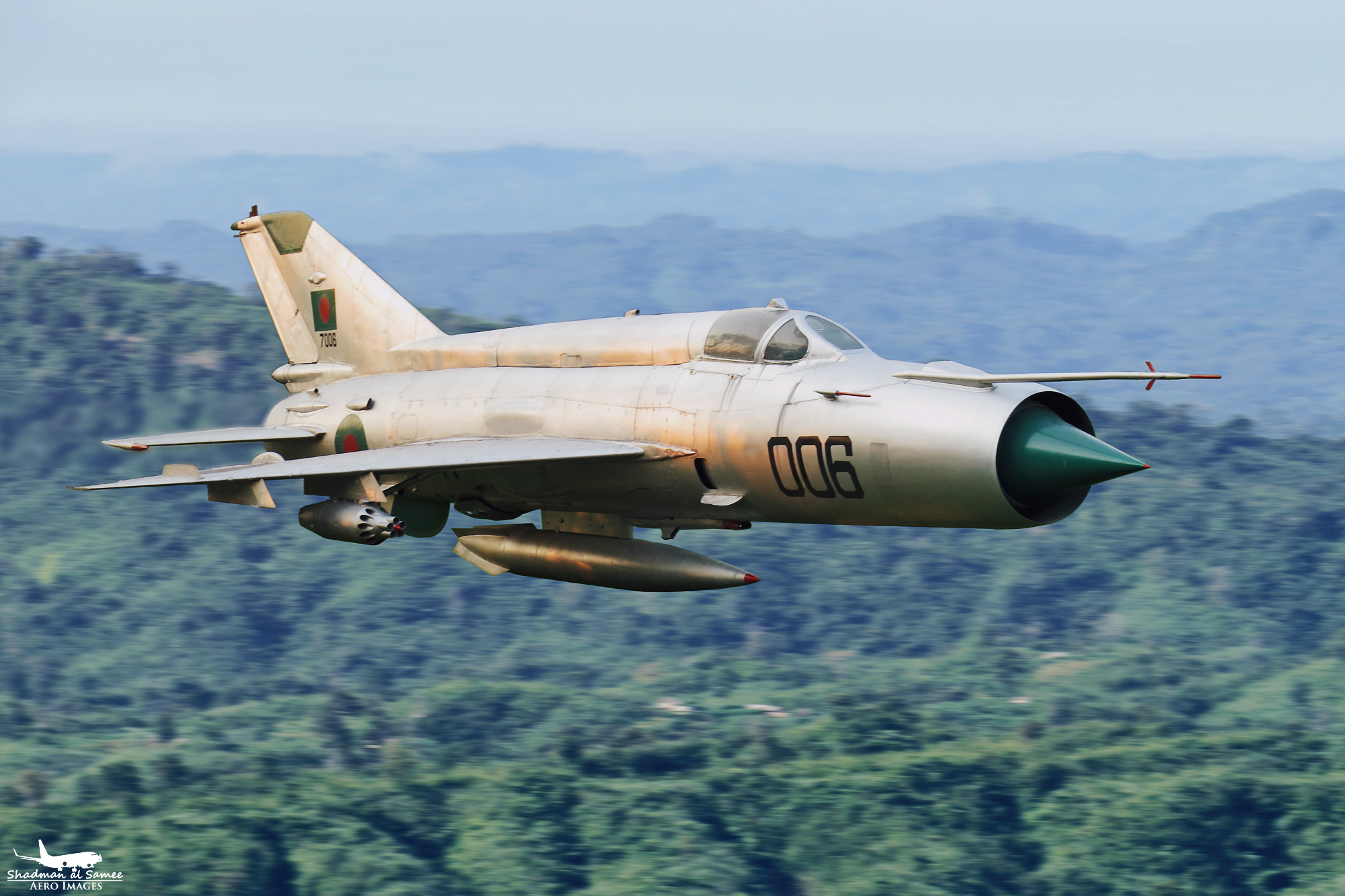 Bored spotter stuff continued: Am taking a break from spotting as my exams are near, also as there are no good spots left. Hence this composite: 7006 is at the BAF museum, while the background was shot from my trip to Sajek valley last year.